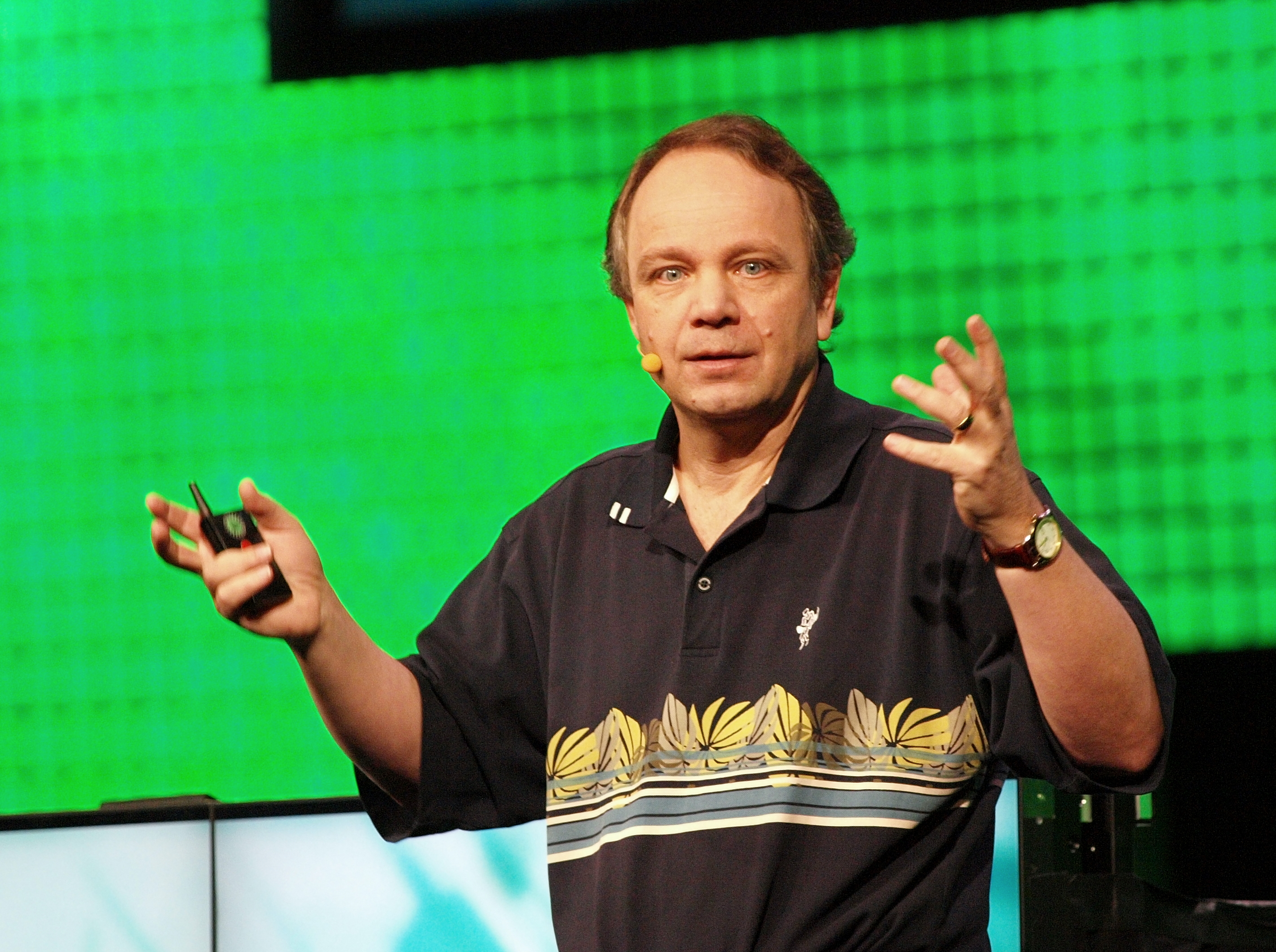 Sid Meier at the Game Developers Conference in 2010 (fourth day).